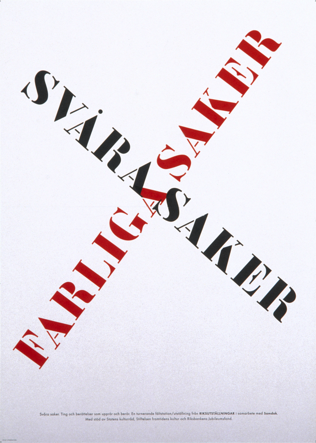 Poster for the exhibition Svåra saker from 1999. Design Henrik Nygren